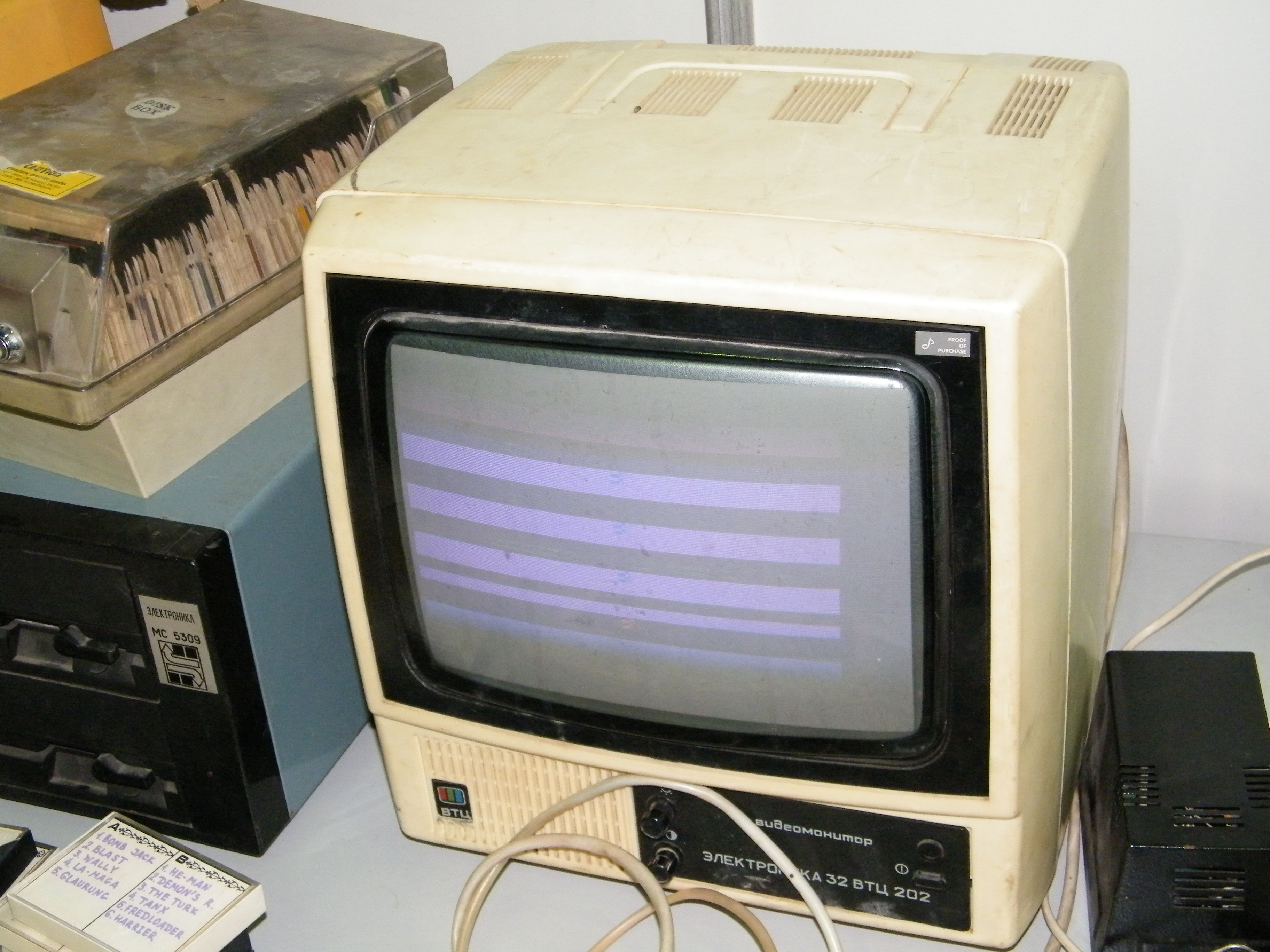 Видеомонитор Электроника 32 ВТЦ 202 СССР 1980-е годы